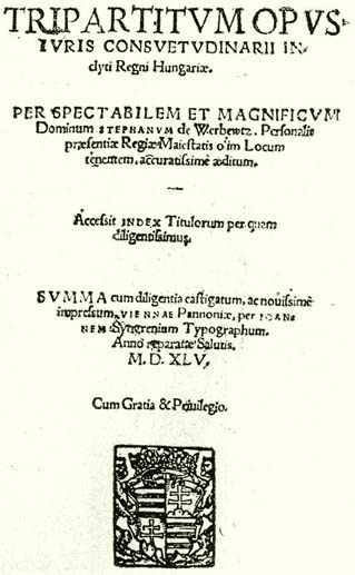 front page of Tripartitum, the law-book of Hungary (published in 1545, Vienna)